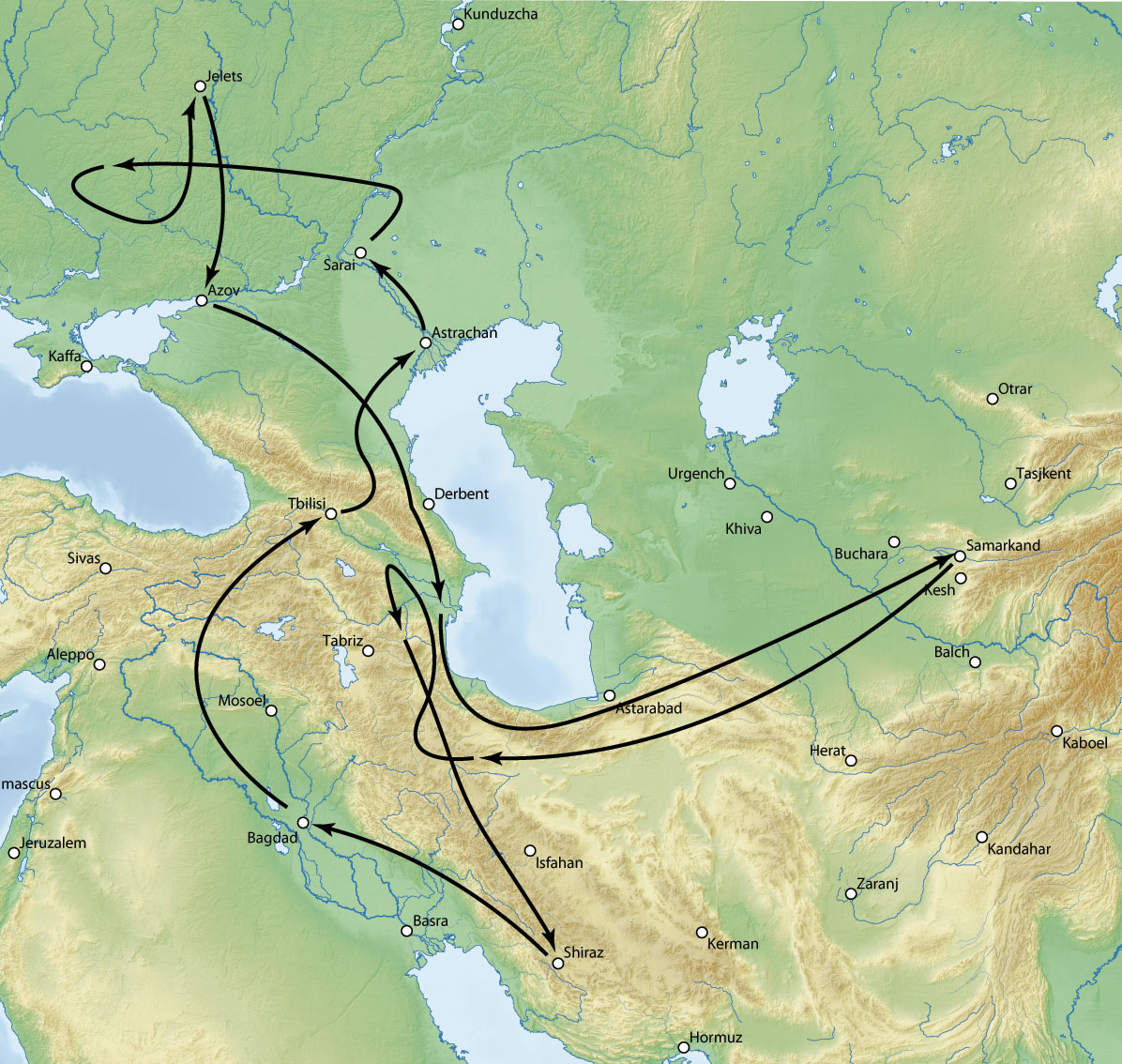 The campaign of Timur against the Golden Horde in 1392-1396.